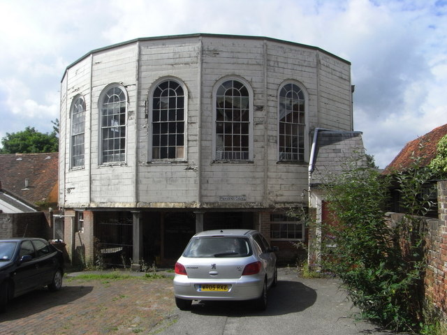 Providence Chapel, Stone Street, Cranford, Cranbrook, Kent, seen from the northeast